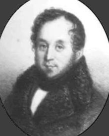 ImpressarioAlessandro Lanari